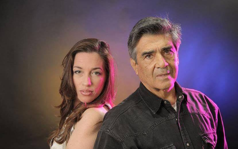 Con Cierto Estilo